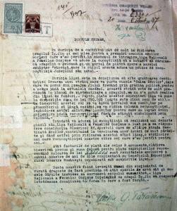 Document of donation of art work to the city hall of Targu Jiu, 1937